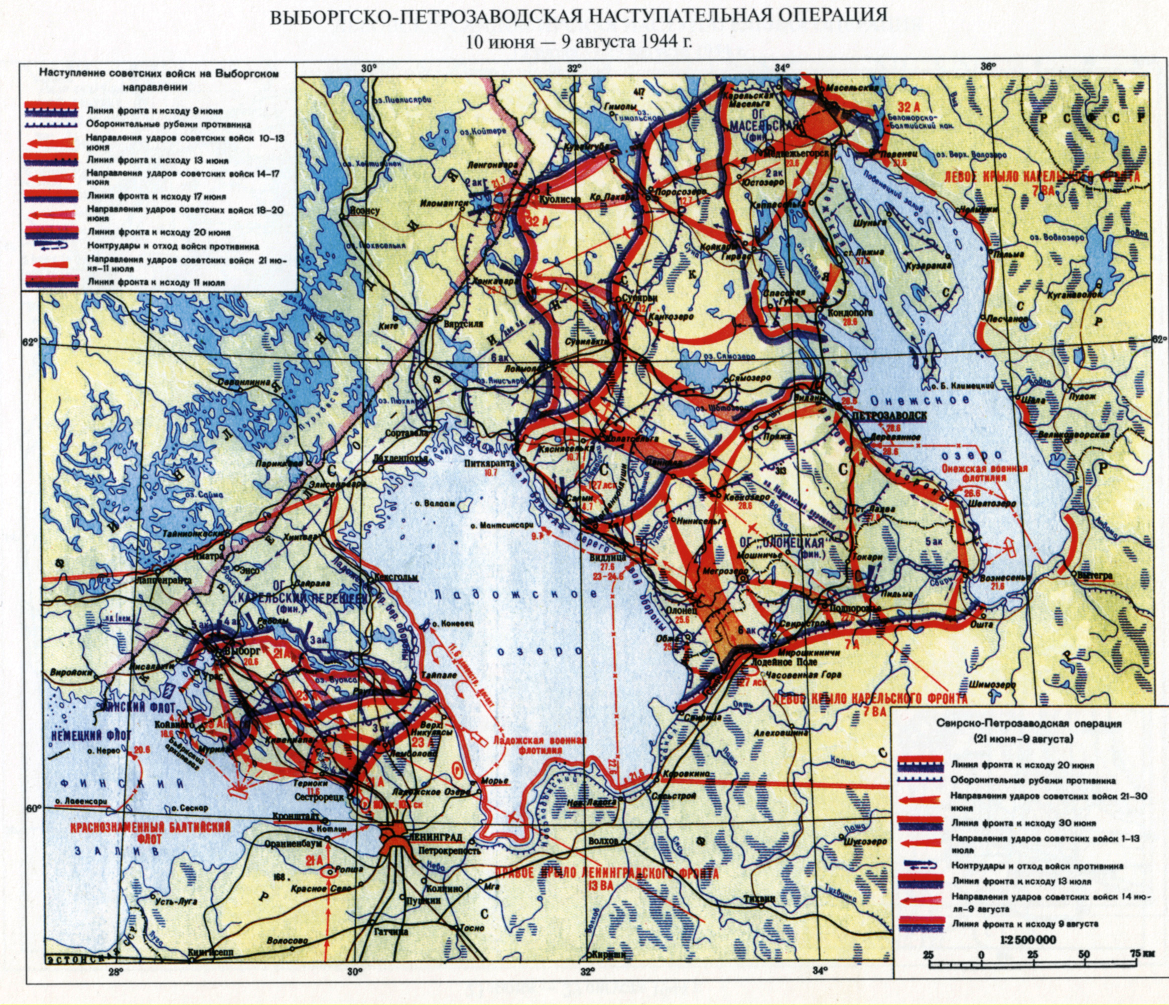 Vyborg–Petrozavodsk Offensive